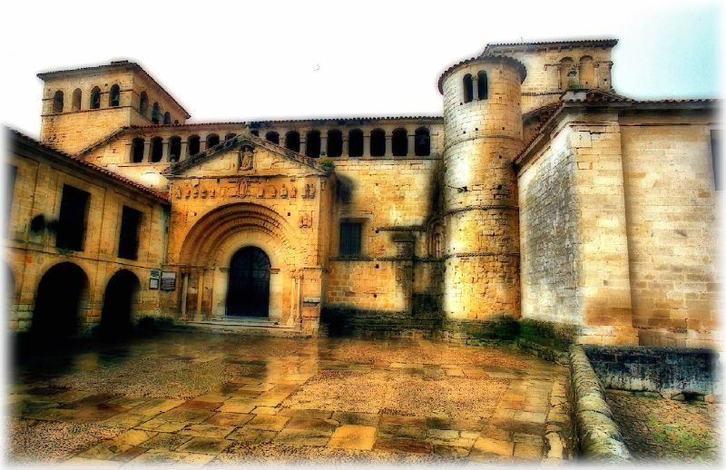 Collegiate Church of Santa Juliana, in Santillana del Mar (Cantabria, Spain)